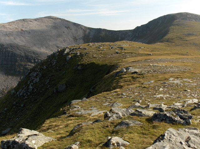 Beinn na Socaich. The ridge rising to Stob Coire Easain and thence to Stob Coire an Laoigh.